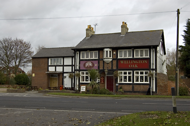 Wellington Oak, Pocklington, East Riding of Yorkshire, England.Pub on the A1079 opposite Canal Head